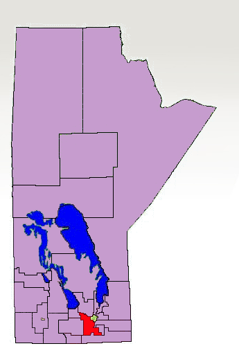 The boundaries of the provincial Morris electoral district in 2007 highlighted in red